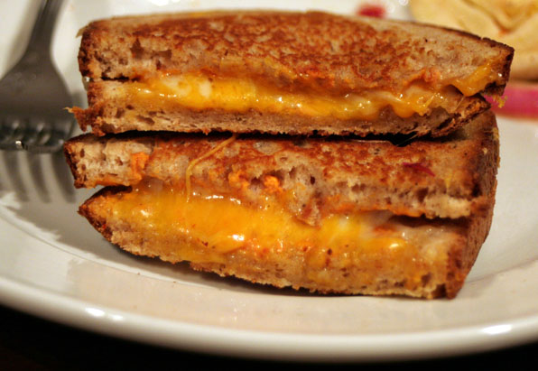 The soup is inside the sandwich! We're celebrating National Grilled Cheese Month! Recipe and more here! on Pithy and Cleaver